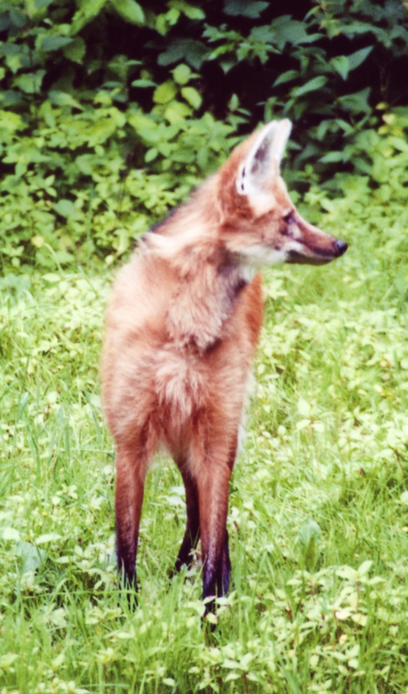 Maned Wolf